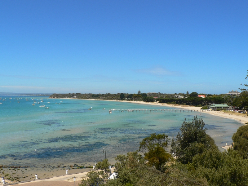 Sorrento beach Melbourne